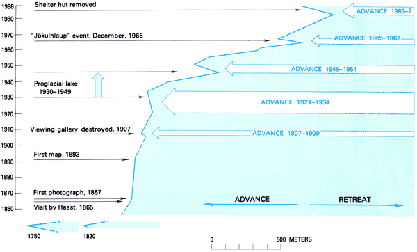 Figure 13.-Historic variations of the terminus position of the Franz Josef Glacier, Westland, New Zealand and associated events. 1907-A viewing gallery giving access across a sheer rock face above the northeast margin on the snout was scraped off the rock face by this small advance shortly after being built. 1930-1949-A proglacial lake formed but soon filled with outwash gravels. The lake was popular for boating until a large ice block, held submerged by debris, released its load and erupted through the lake surface. 1965-During a heavy rainstorm in December, the main subglacial channel was apparently blocked beneath the glacier snout, and the accumulated water burst upward through the glacier to continue downvalley as a spectacular flood wave of water and ice. There was some damage but no casualties. 1984- A shelter hut, built in 1981 for visitors helicoptered to the inaccessible southwest edge of the glacier snout, was knocked off of its foundation by a large ice block that fell from the glacier front, which was advancing at the rate of a meter per day. The hut was removed from the site, which now remains well under the glacier.